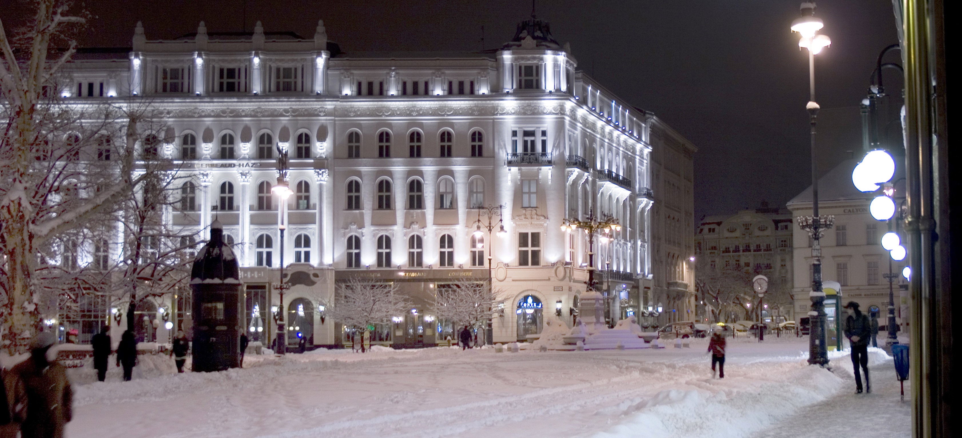 Hungary, Budapest, Vörösmarty Square, snowy winter evening, with Café Gerbeaud building.